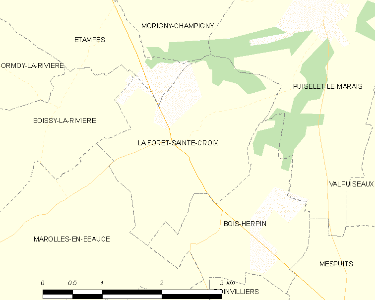 Map of French municipality La Forêt-Sainte-Croix